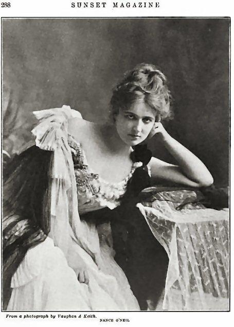 Nance O'Neil ca. 1903. In Sunset Magazine May-October 1903 issue.